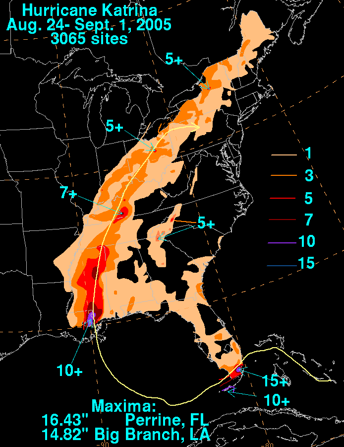 Storm total rainfall map of Hurricane Katrina during August and September 2005.